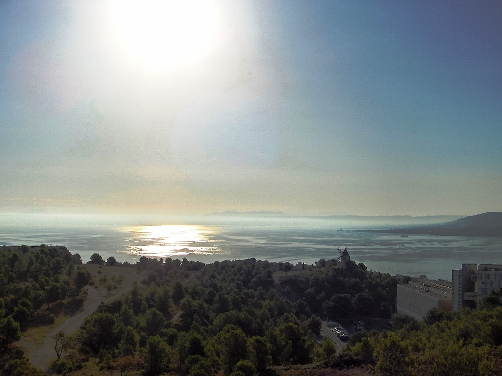 Martigues — Sunrise on étang de Berre, seen since the chapel Notre-Dame-des-Marins